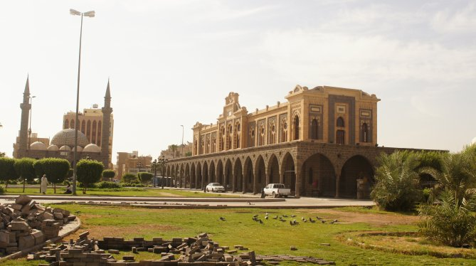 Refurbished terminal station of the Hejaz Railway in downtown Madinah, KSA.